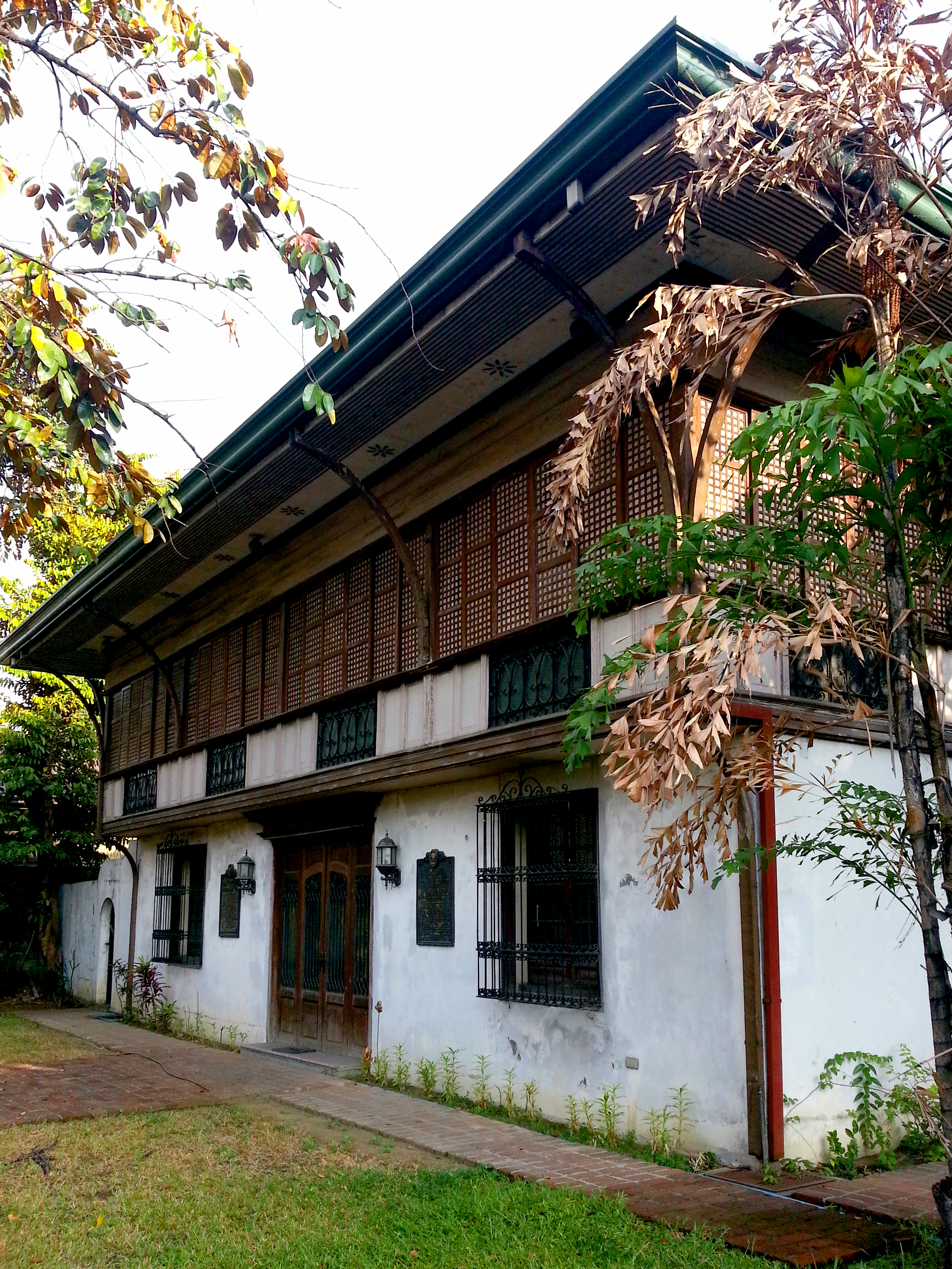 The south facade of the Jose P. Laurel Ancestral House in Paco, Manila